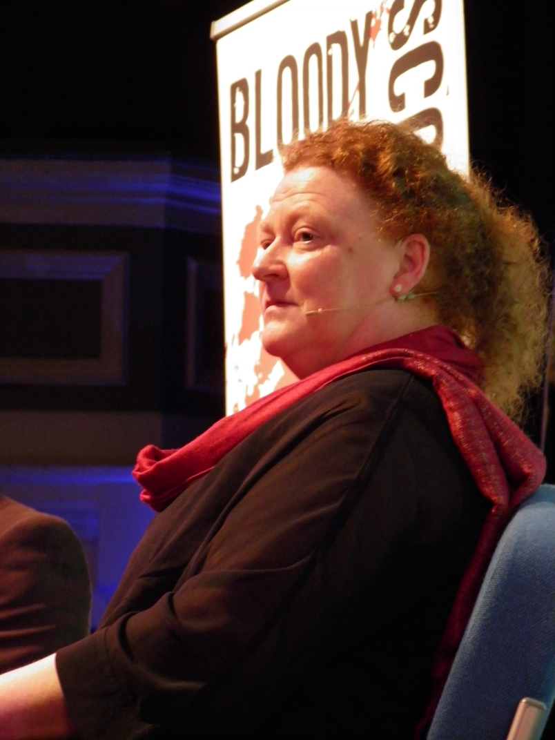 Forensic anthropologist Professor Sue Black at Bloody Scotland International Crime Writing Festival, 2017